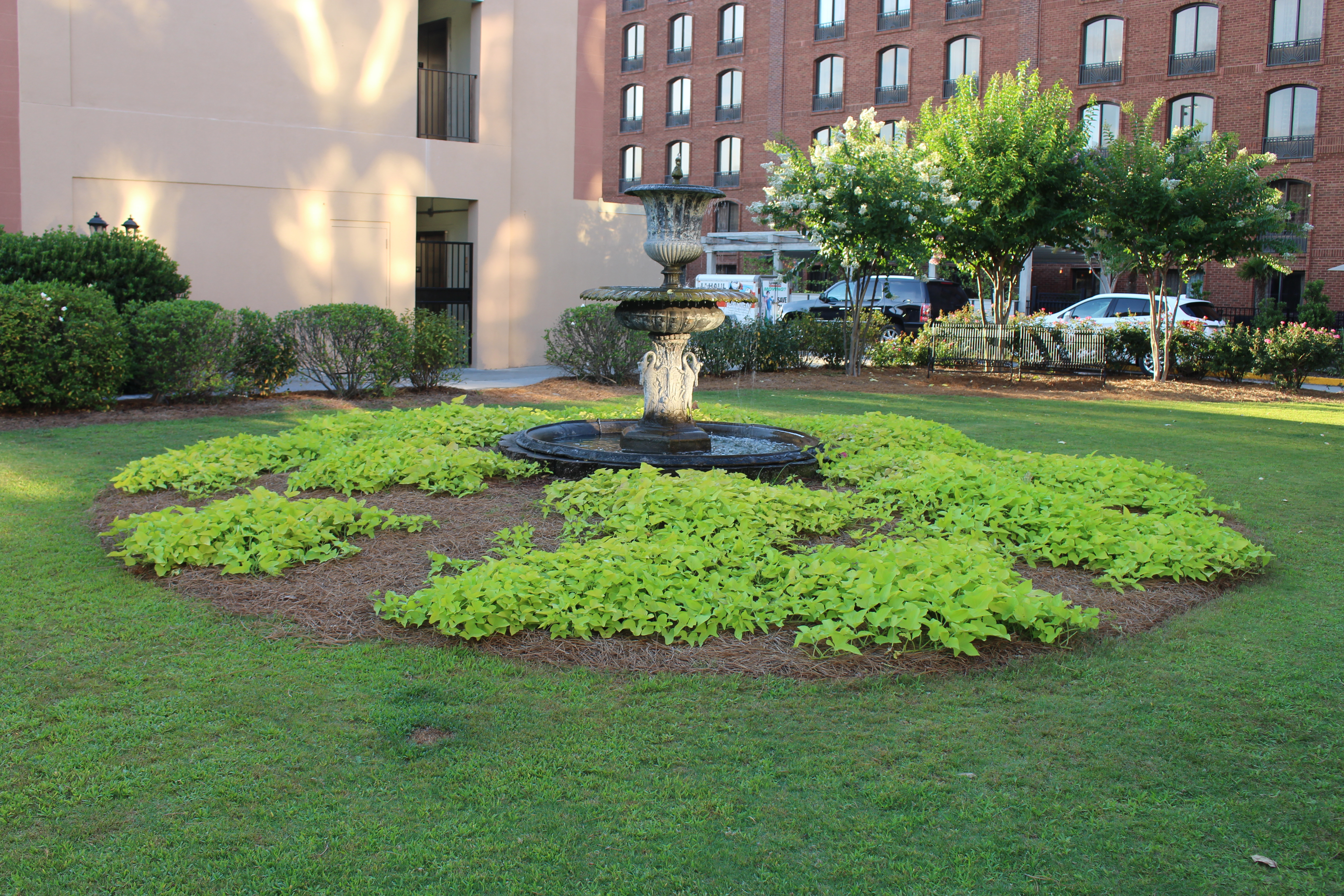 Fountain in park next to Hotel Indigo, Savannah, Chatham County, Georgia